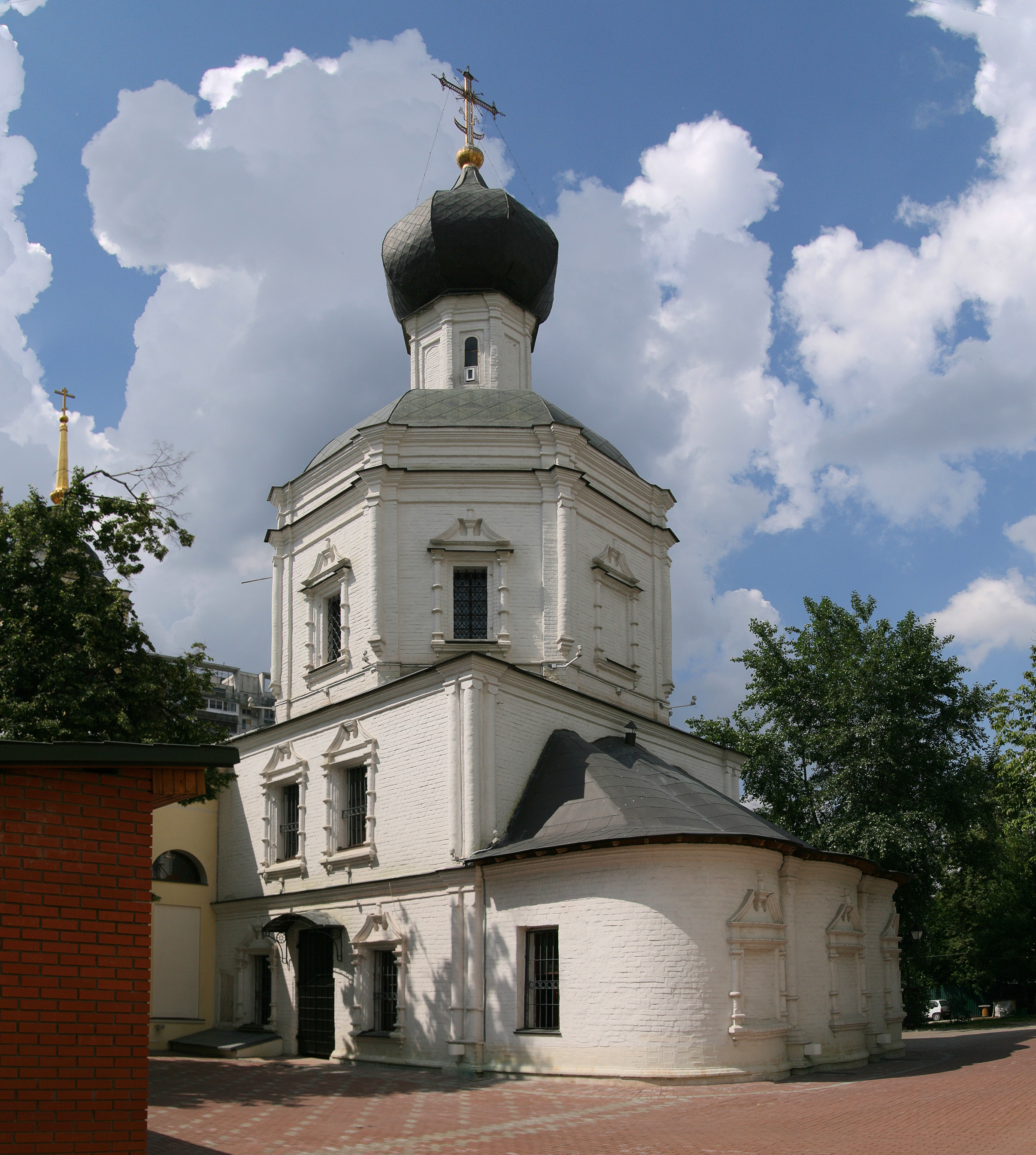 Church of the Dormition in Kazachya Sloboda, Moscow